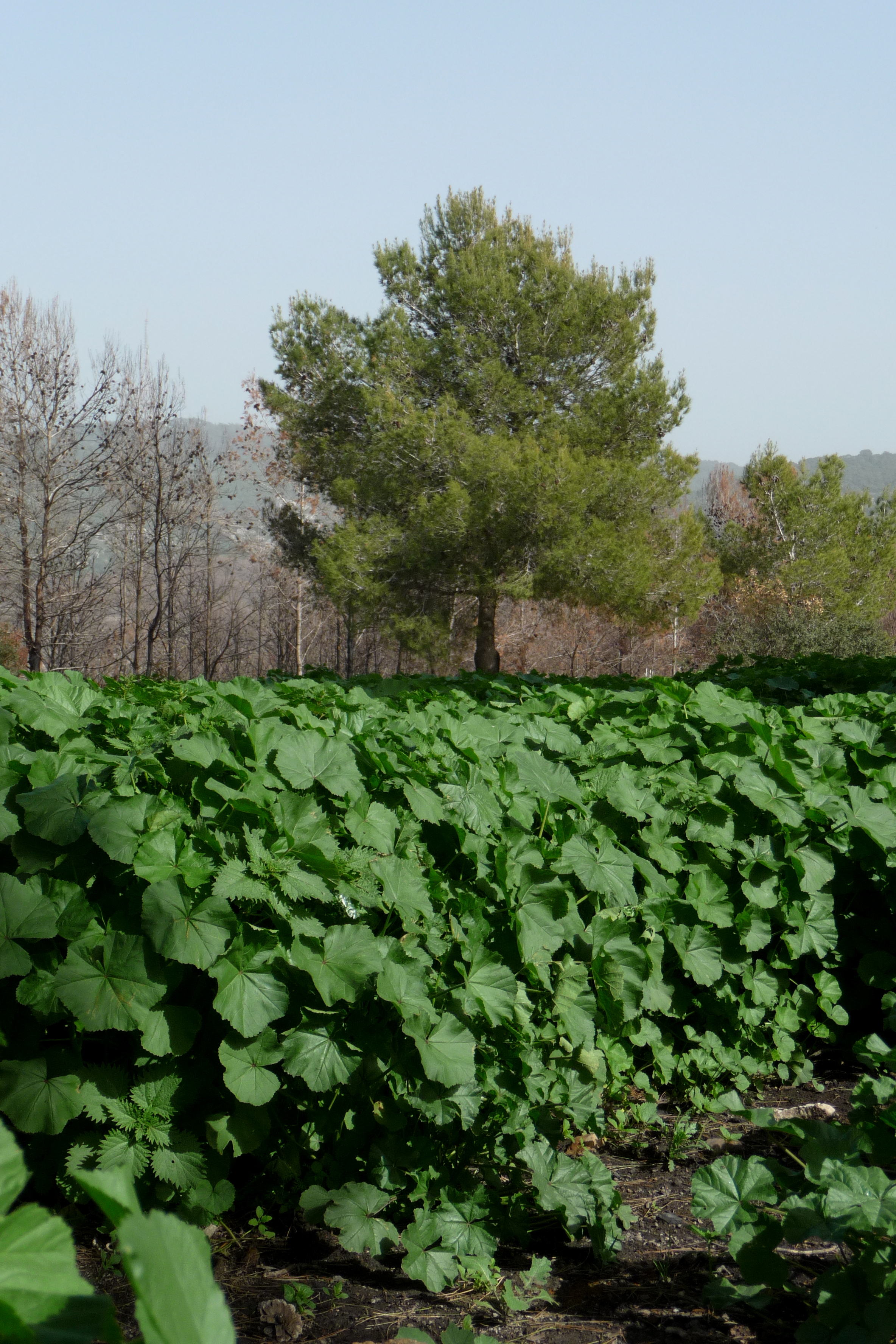 Carmel Park